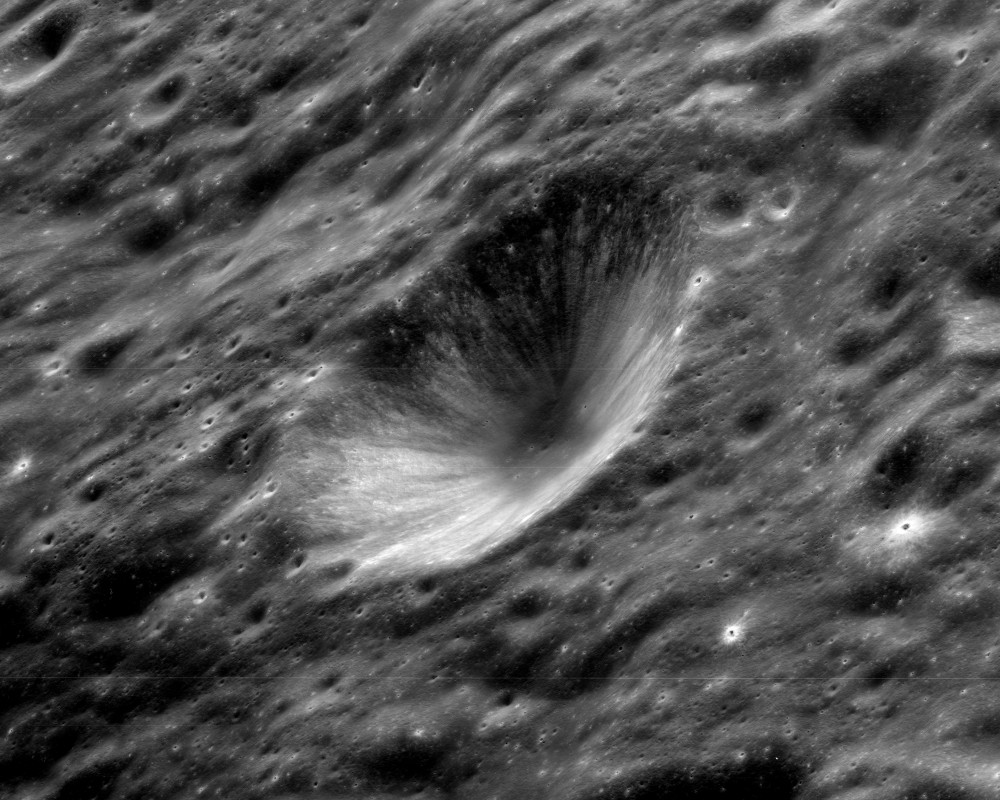 Oblique view of 8 Homeward crater, facing southwest, on the moon. Taken by Apollo 17 panoramic camera.